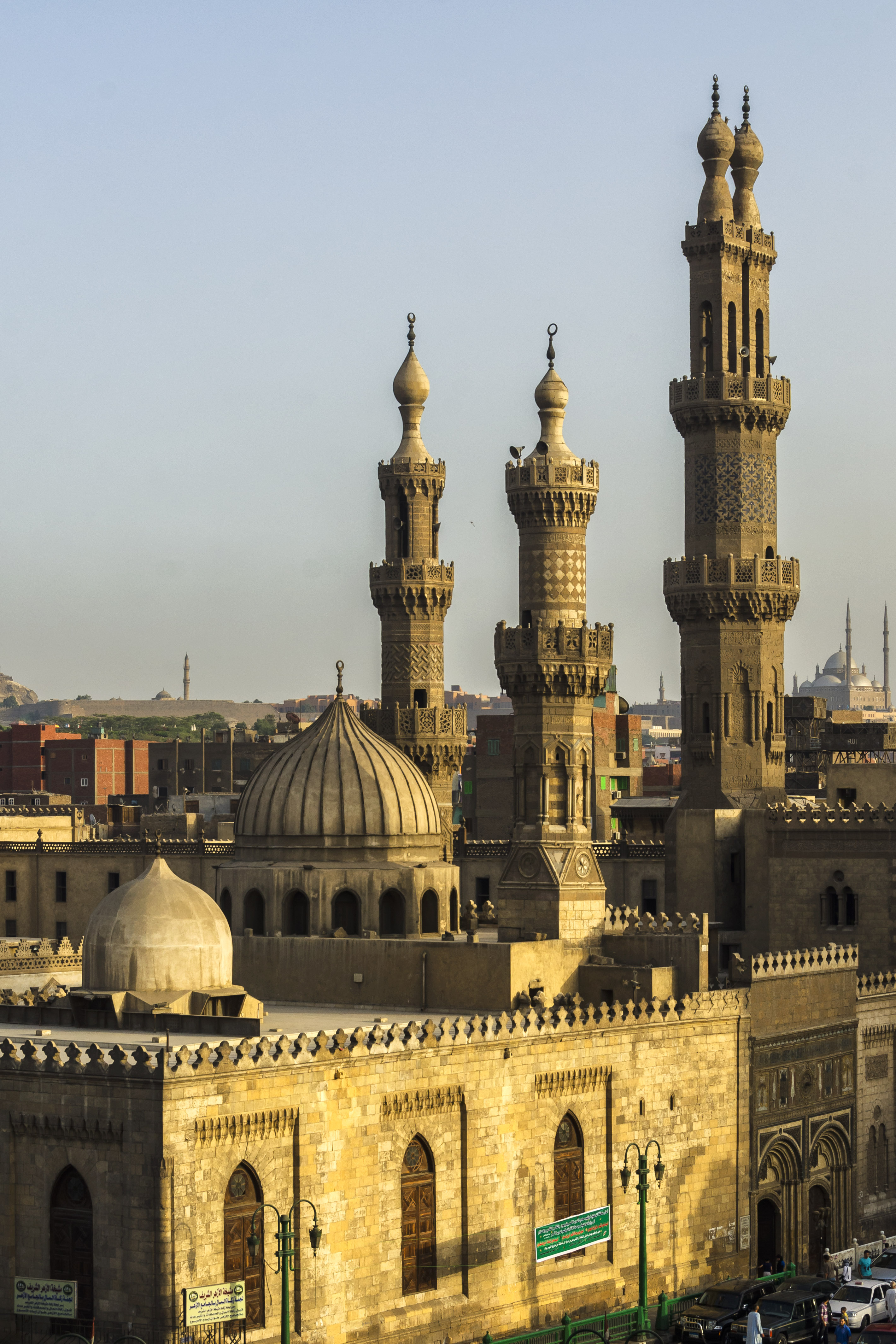 Al-Azhar Mosque, also simply in Egypt Al-Azhar, is an Egyptian mosque in Islamic Cairo. Al-Mu'izz li-Din Allah of the Fatimid dynasty commissioned its construction for the newly established capital city in 970